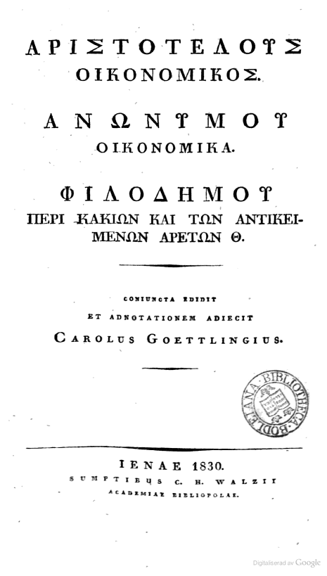 Karl Wilhelm Goettling (Ed.): Aristotelous Oikonomikos. Anōnymou Oikonomi'ka: Philodm̄ou Peri kakiōn kai tōn antikeimenōn aretōn 9. Sumptibus C.H. Walzii, 1830.